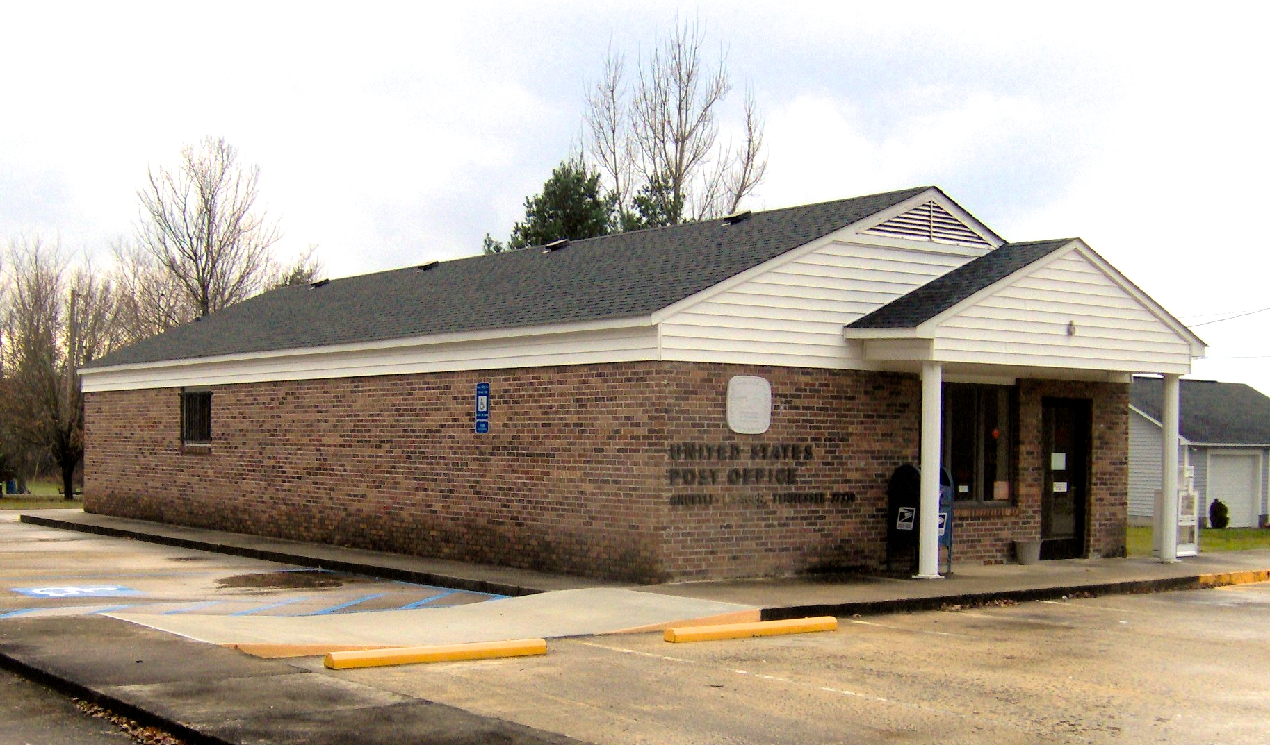 Post office in Gruetli-Laager, Tennessee, in the southeastern United States. The post office is located along TN-108, about halfway between Gruetli and Laager.